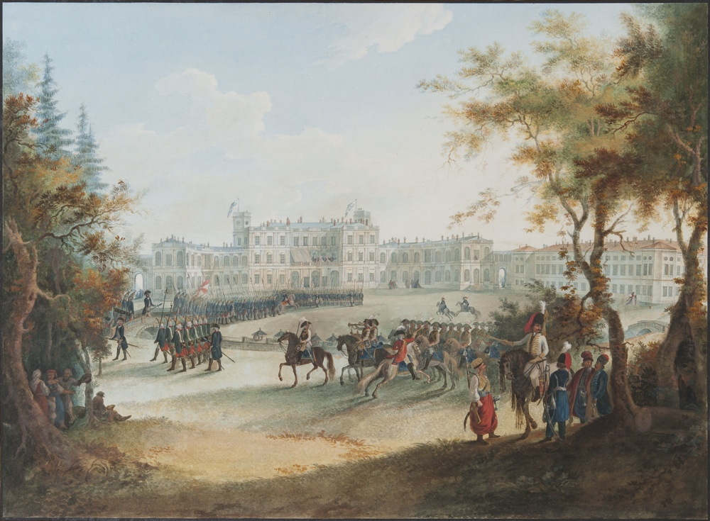 The Gatchina palace of Count Orlov (18th-cent. watercolour)